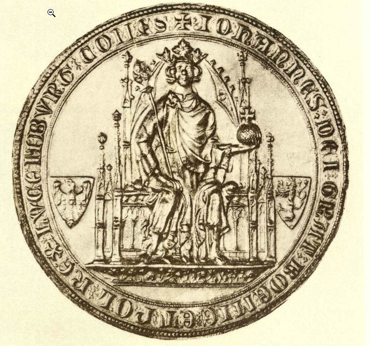 John I, Count of Luxemburg